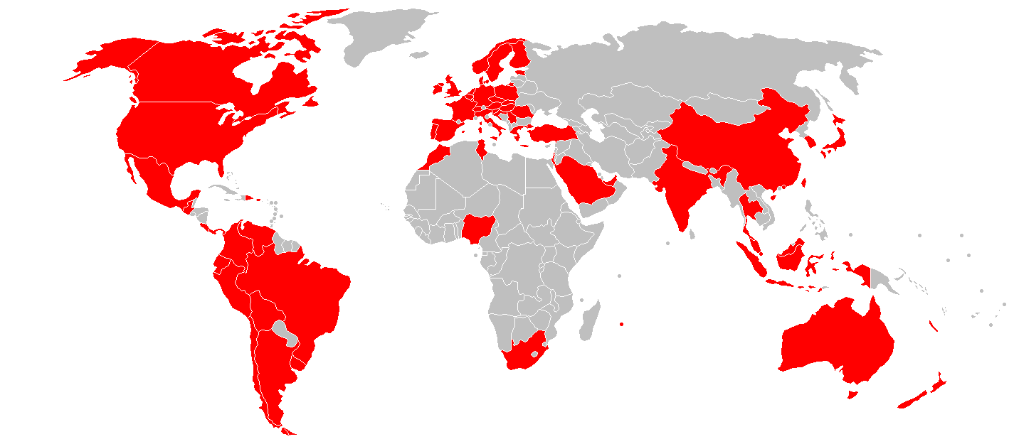 Adecco global locations